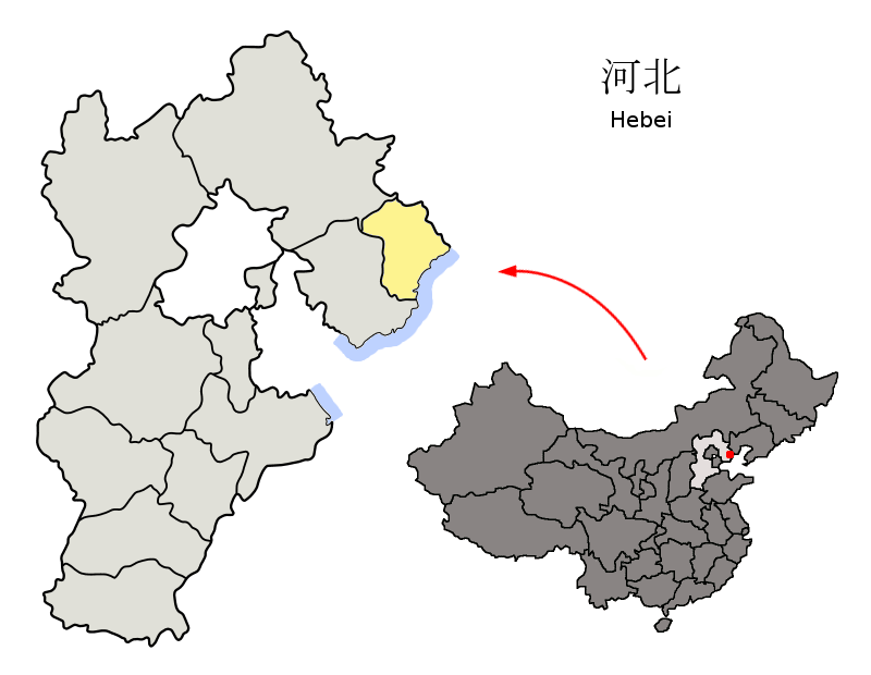 Location of Qinhuangdao Prefecture (yellow) within Hebei Province of China 简体